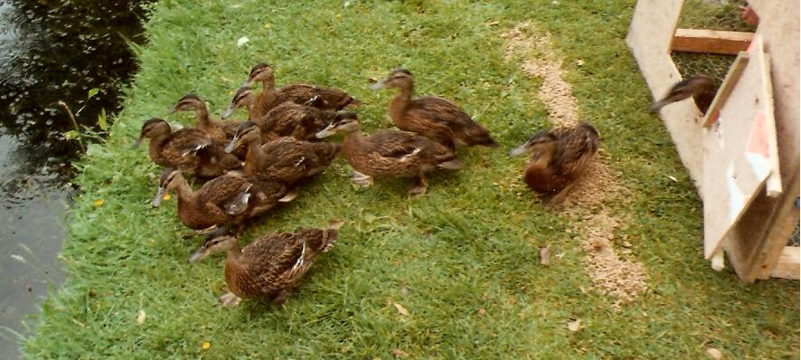 Bryngarw Country Park, Ducks 93